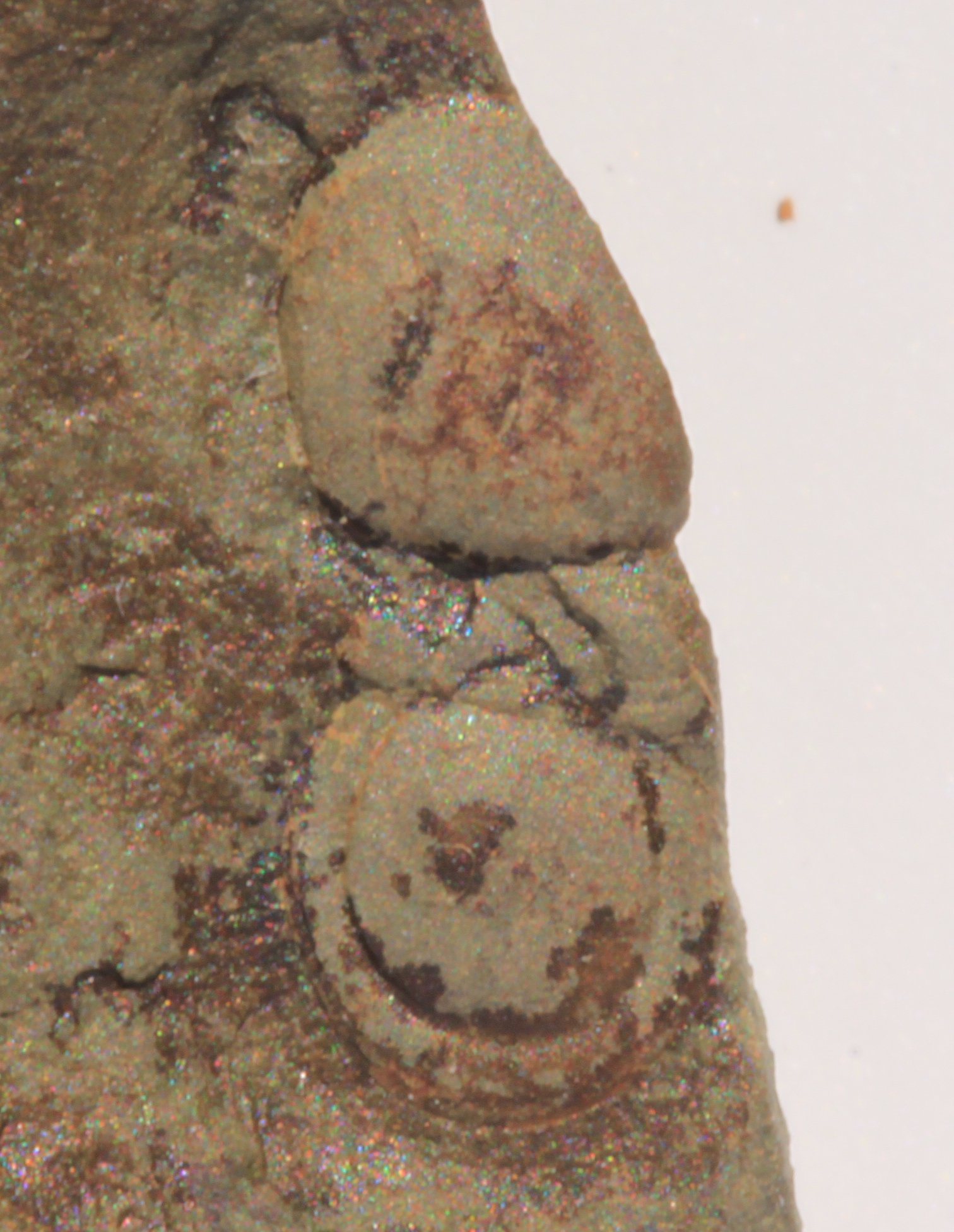 An agnostid trilobite Phalagnostus prantli, 10mm, from the Jince Formation, Czech Republic, Middle Cambrian